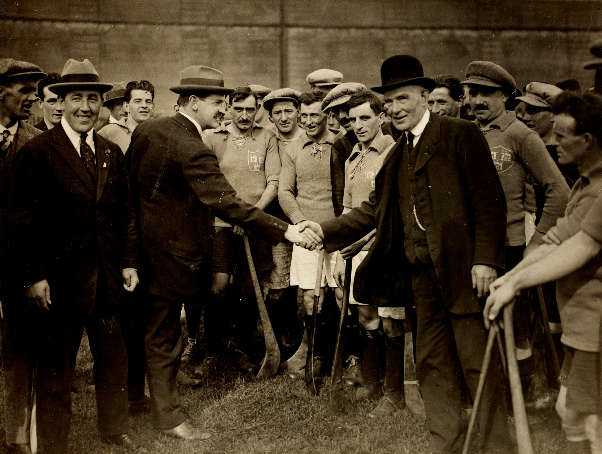 The Dublin hurling team look on, as a very happy Harry Boland smiles directly at the camera while Michael Collins shakes hands with a gentleman we thought was G.A.A. General Secretary Luke O'Toole. DannyM8 proved otherwise, and now thanks to guliolopez, we know this is Alderman James Nowlan (ex-GAA president and Sinn Féin rep of "Nowlan Park" fame). Plus, great pen portrait of Alderman James Nowlan by his great grand nephew, davidnolanartist: "Hi my name is David Nowlan, Alderman James Nowlan was my Great Grand Uncle. He was born in Monasterevin, as he is listed in the local church as baptised, Cowpasture, Monasterevin, Co. Kildare in 25.5.1862. His father Patrick Nowlan an early member of the IRB and friend of James Stephens, was a cooper from Kilkenny city and who more than likely moved to work at Cassidy's whiskey monasterevin. A member of the Gaelic League, he was a lifelong supporter of the Irish language revival movement and a supporter of Sinn Féin from its foundation in 1905. In 1898 he was elected an alderman of Kilkenny Corporation, and used his time in the position to help promote the GAA, which having been set up 14 years prior was a relatively new organisation at the time. In 1900 he became the first chairman of the Leinster Council of the GAA. He was elected President of the national GAA at the 1901 Congress held in September of that year. He would hold that position for twenty years making him the longest serving president. During his time in office he attempted to steer the organisation on a more republican path." This photograph was taken on the day of the 1921 Leinster Hurling Final. Dublin beat Kilkenny, naturally, and the score was Dublin 4-4 : Kilkenny 1-5! Date: Sunday, 11 September 1921 NLI Ref.: BEA44